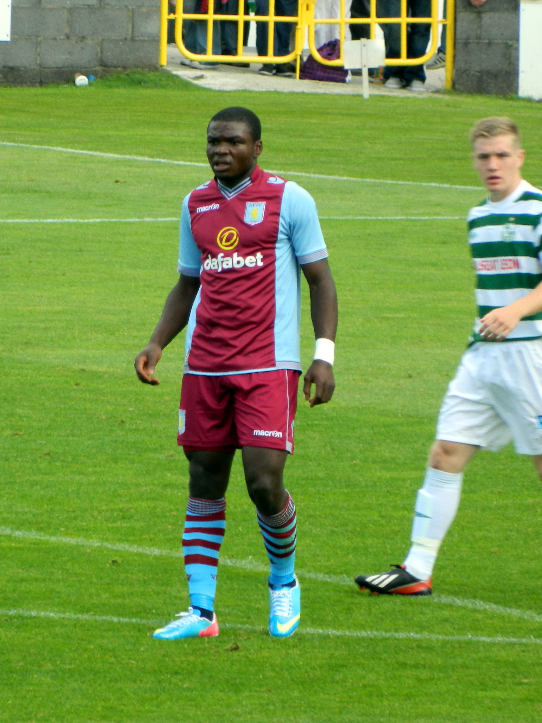 Jores Okore in action for Aston Villa in a friendly game against Shamrock Rovers, played at Tallaght Stadium in Dublin, Ireland.